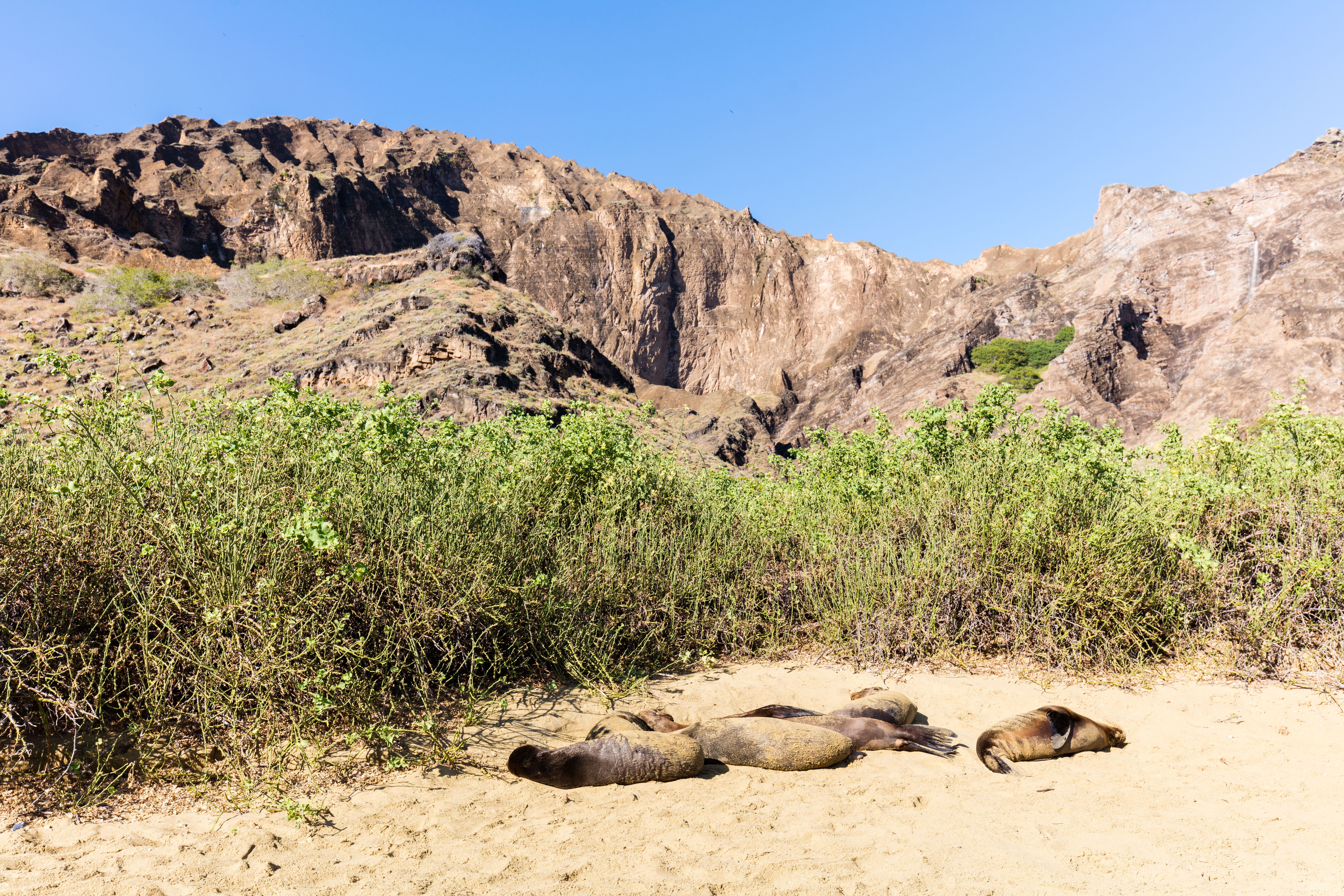 Sea lion (Zalophus californianus wollebaeki), Punta Pitt, San Cristobal island, Galapagos islands, Ecuador